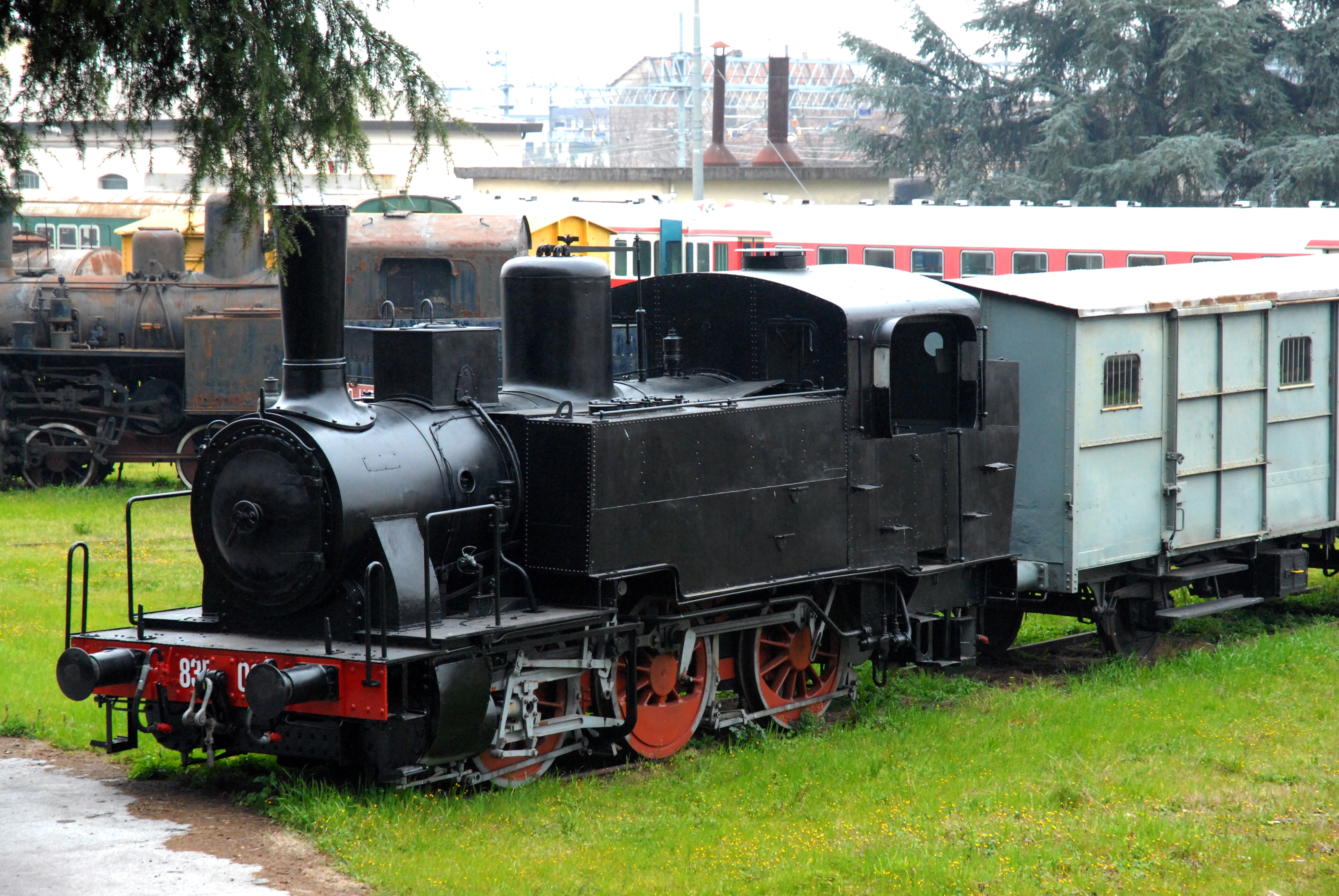 Photos from the FS railway deposit in Pistoia, Italy. FS group 835 unit n. 088